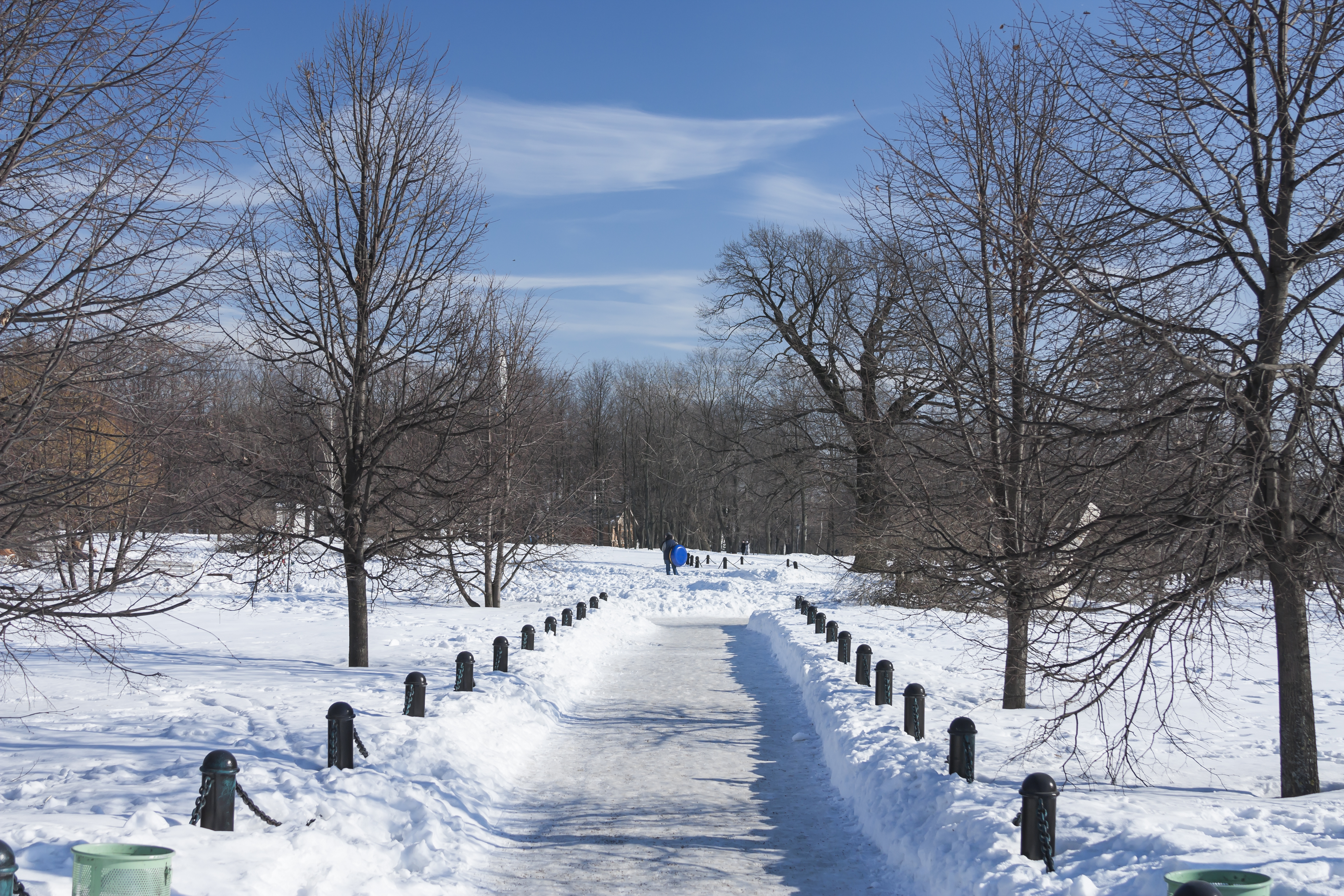 Manor Kolomenskoe, 57.2 ha: Andropov Avenue, Building 39, Nagatinsky Zaton, Southern District, Moscow